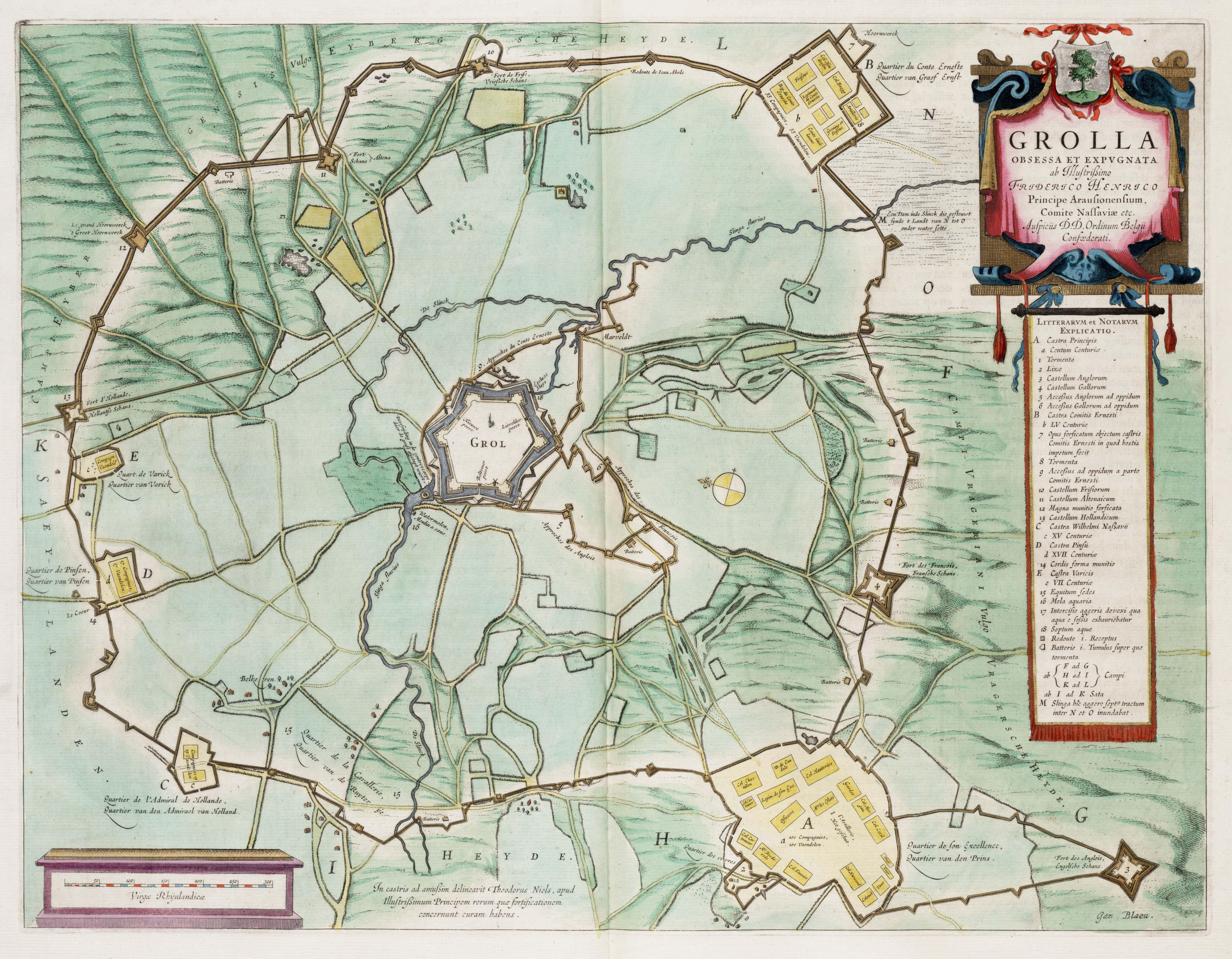 Map of the Siege of Grol (Groenlo) in 1627 by Frederick Henry, Prince of Orange. Map by J.Blaeu, 1649.